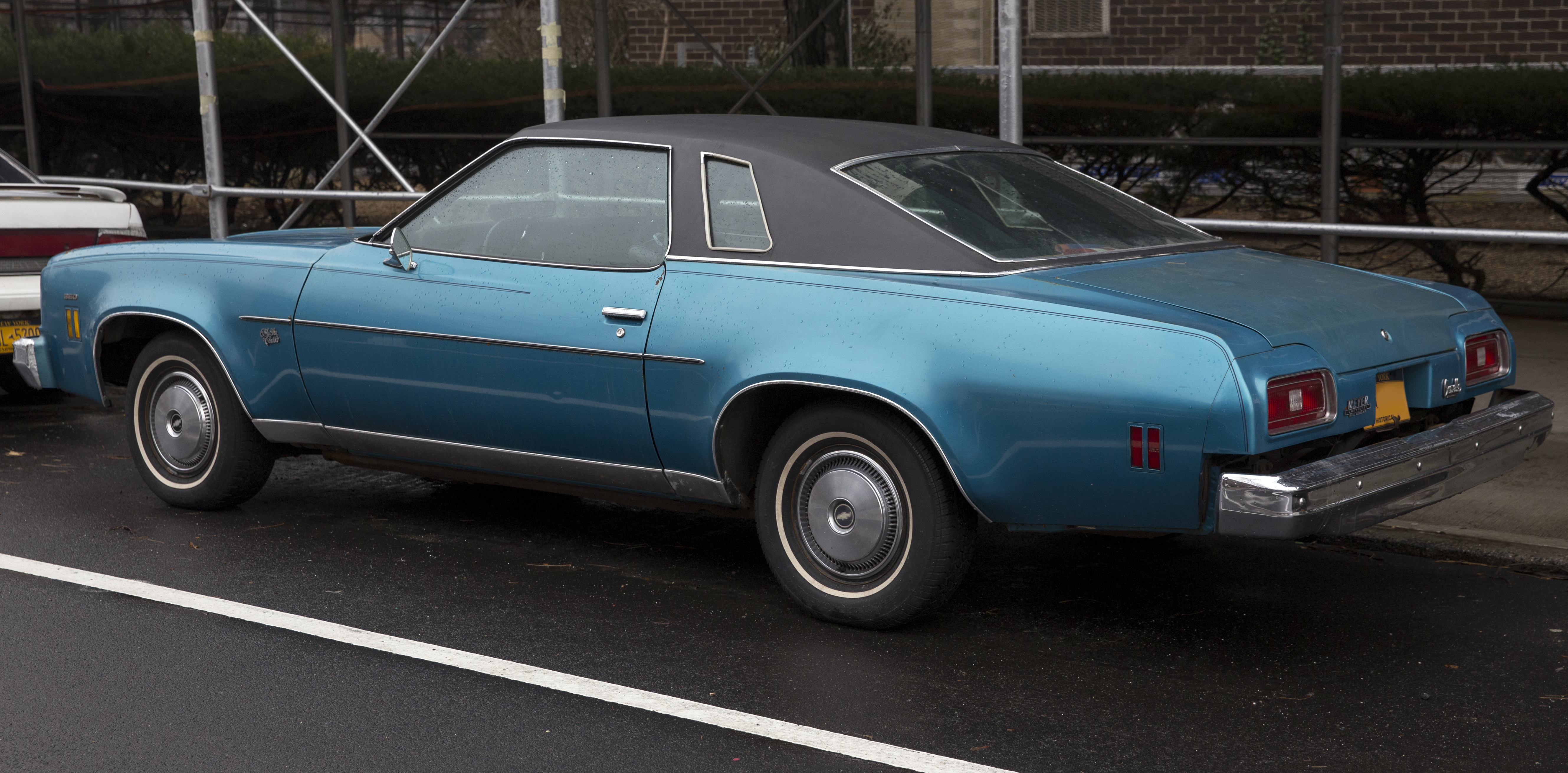 A 1974 Chevrolet Chevelle Malibu Classic two-door hardtop with the 145hp 350ci V8 engine, assembled in Baltimore, MD.